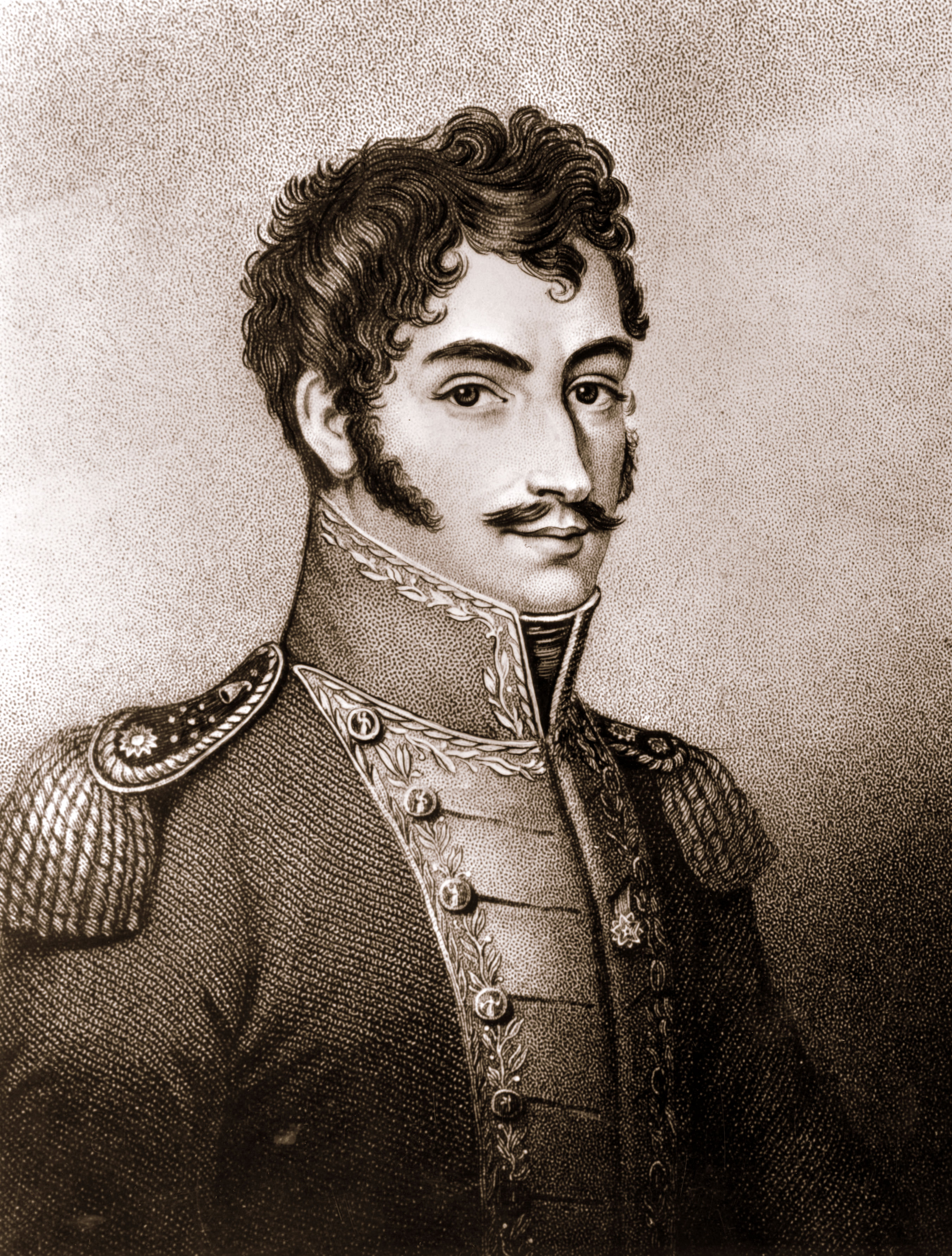 Simon Bolivar